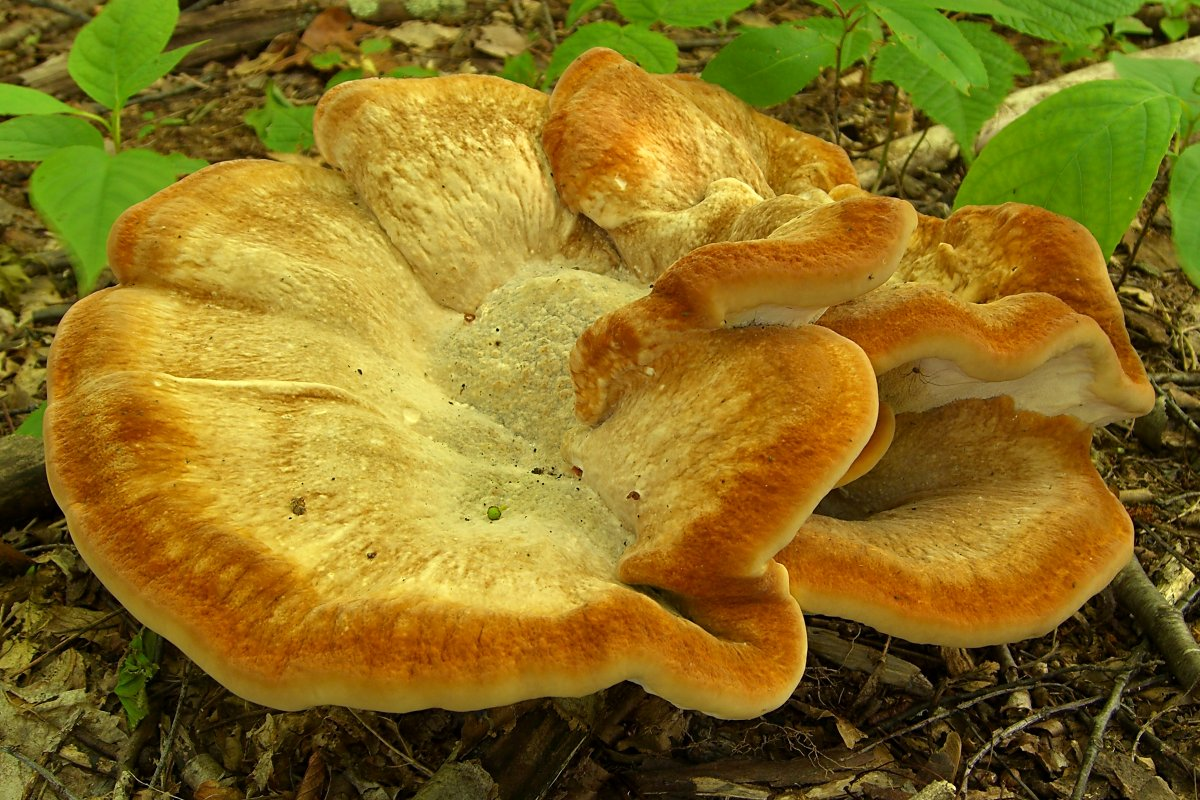 Scientific Name: Bondarzewia berkeleyi (Fr.) Sing. Common Name: Berkeley's Polypore Certainty: positive (notes) Location: Southern Appalachians; Smokies; CabinCove